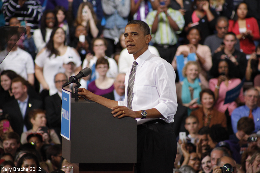 President Obama in Bowling Green, Ohio.